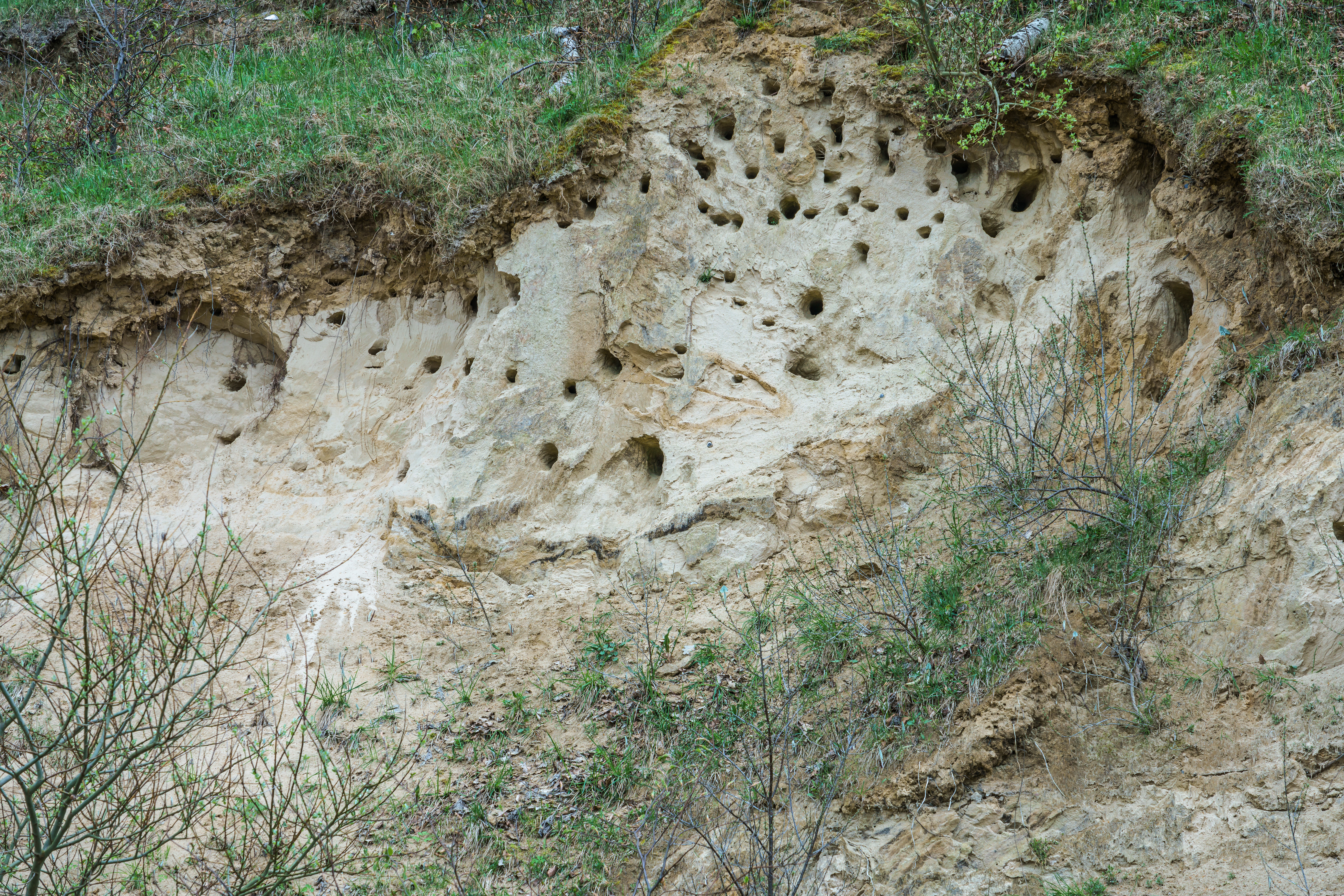 Protected area of Stoltera near Warnemünde, Rostock, Germany